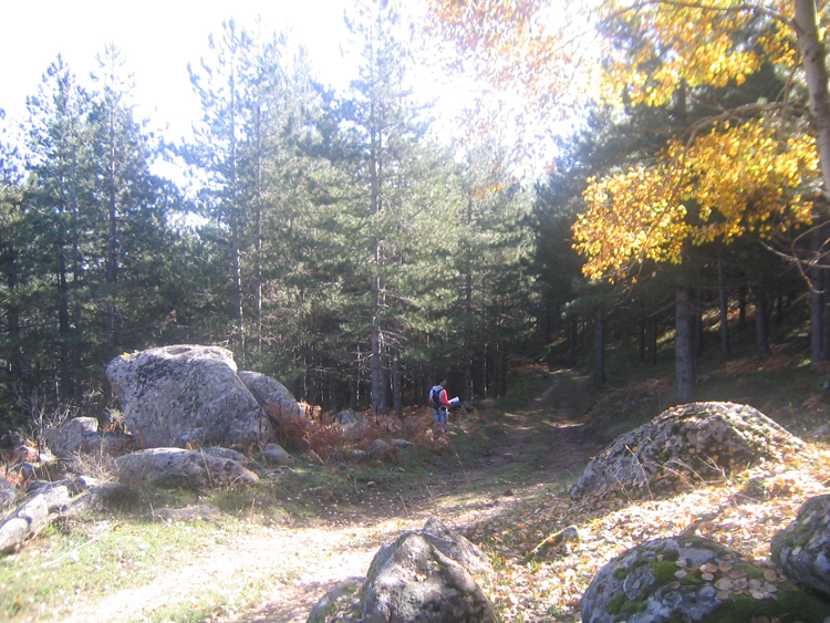 Geology of Sila National Park